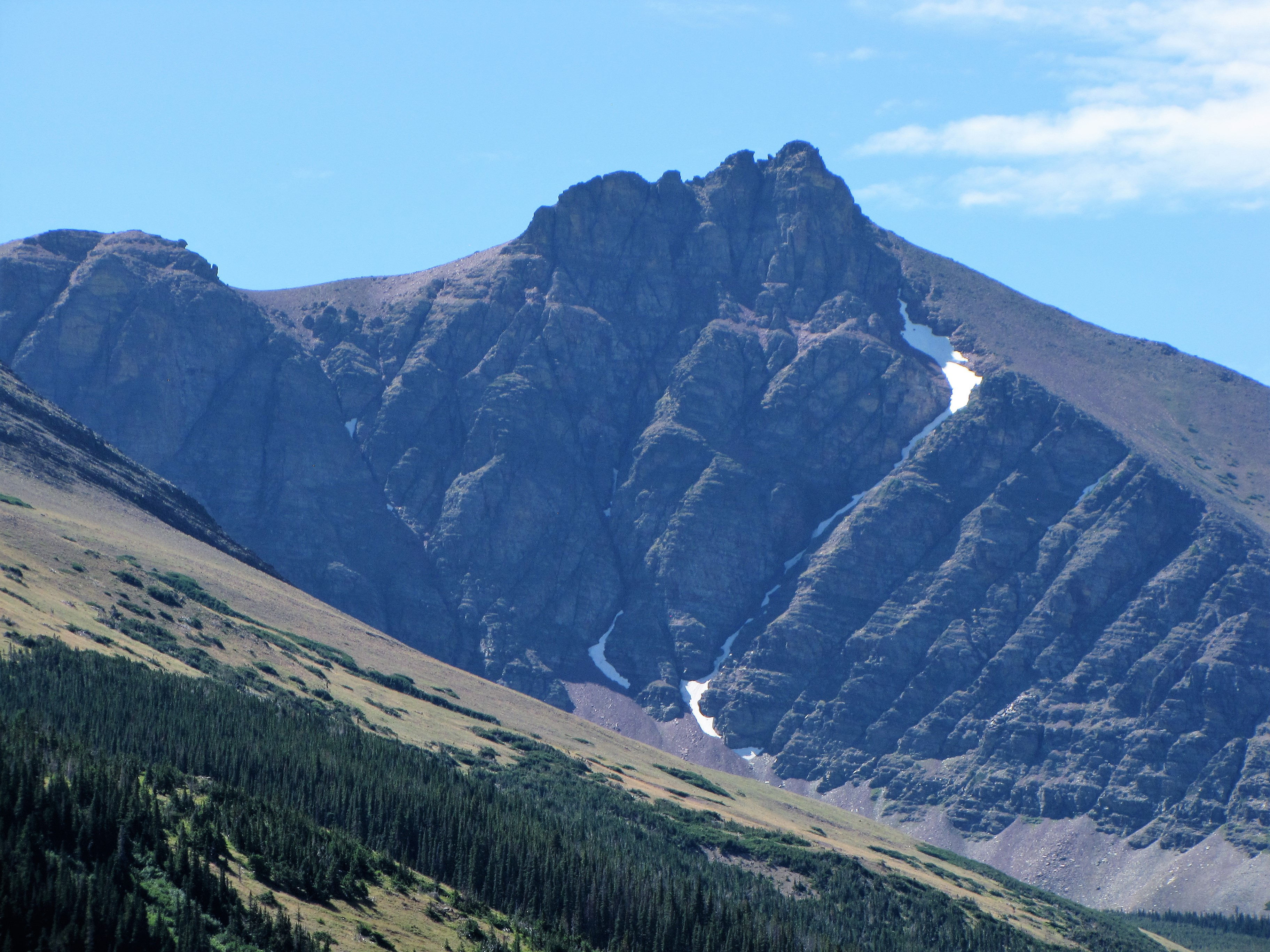 Mount Ellsworth in Two Medicine region of Glacier National Park.